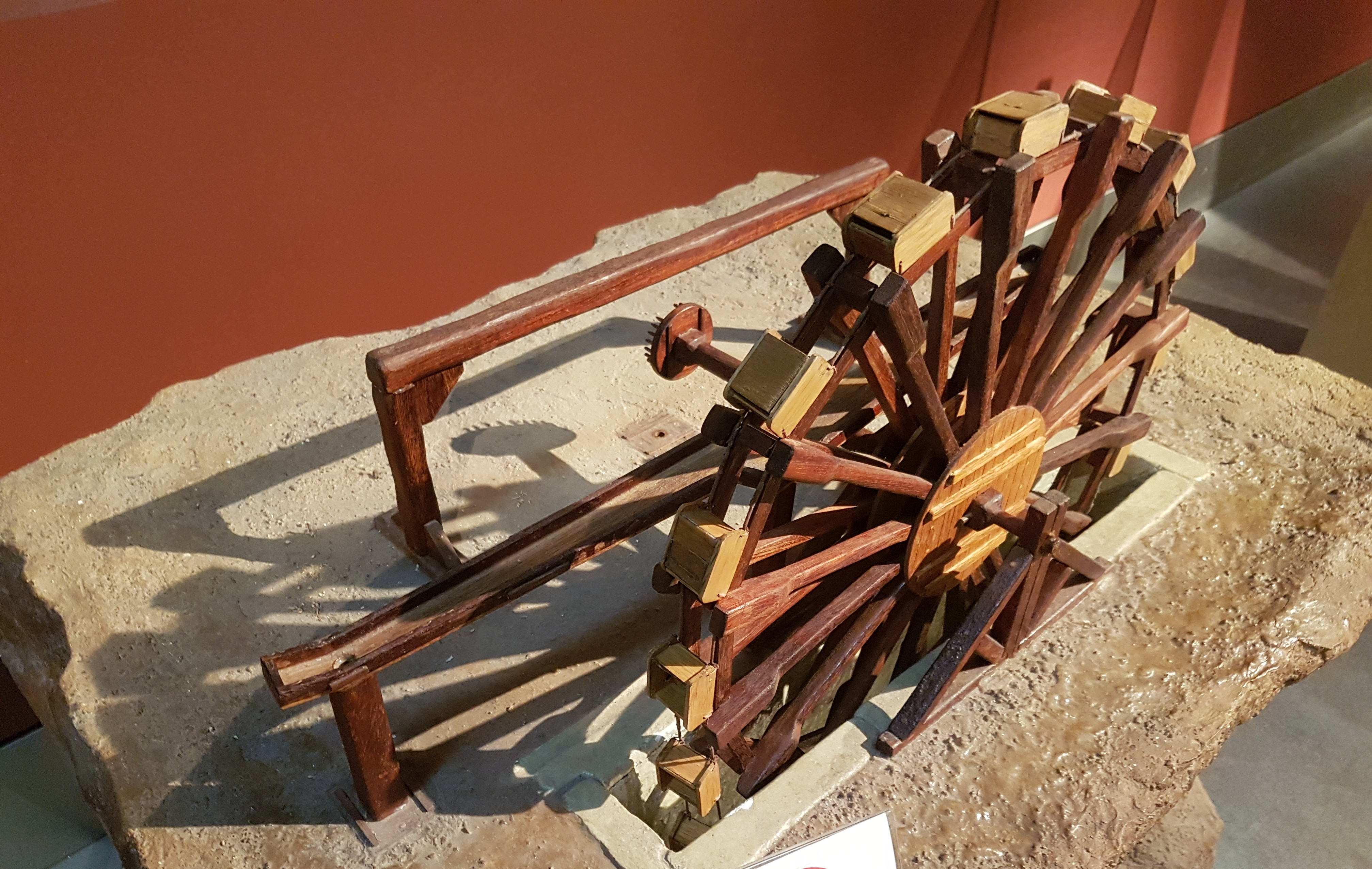 Water mill, Perahora-Lutraki, Greece, 4th century BC (reconstruction). Thessaloniki Technology Museum